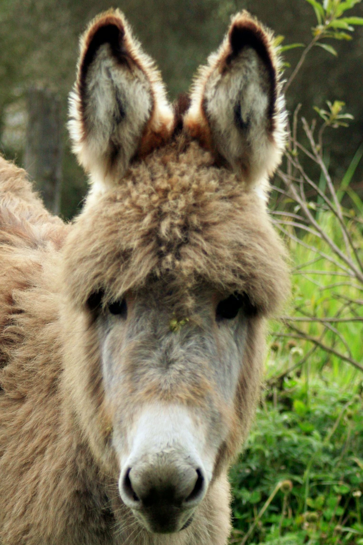 Páramo woolly baby donkey in Chimborazo, Ecuador